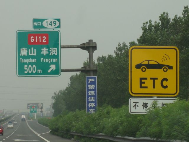 Chinese National Expressway 1 with an ETC sign